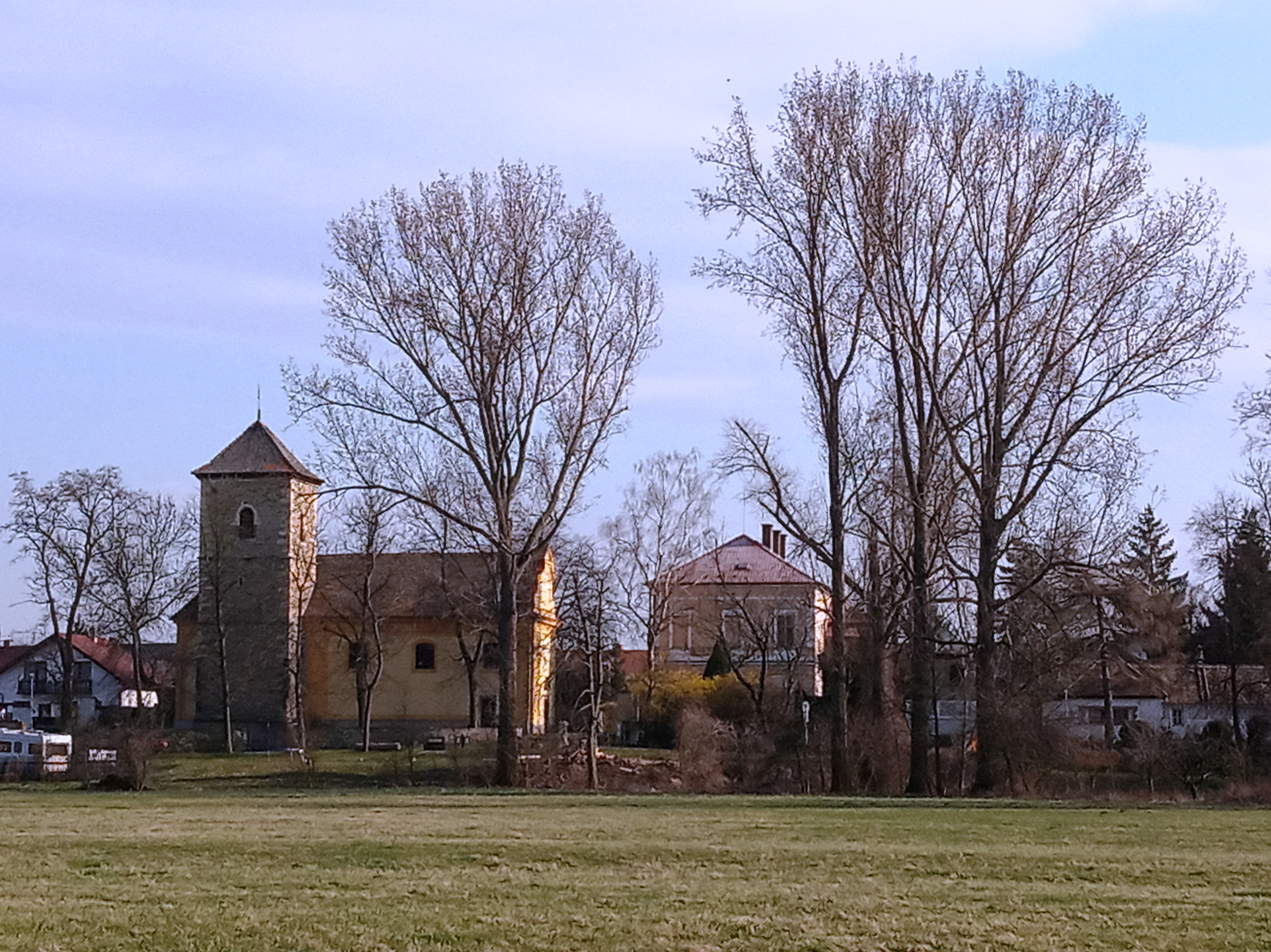 Church of Saint Catherine in Obora, Louny District